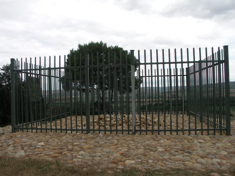 South Africa, Eastern Cape, Hankey Sarah Baartmann's last resting place. Nick Roux 2006